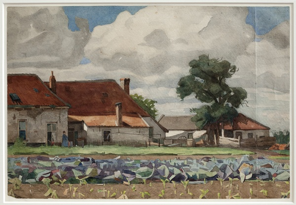 Boerderij met rodekoolveldje